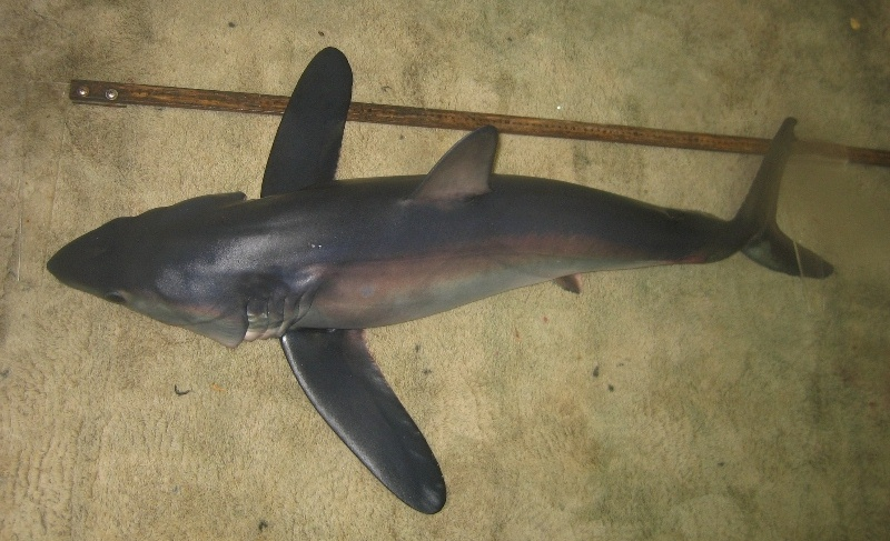 Dorsal view of a longfin mako (Isurus paucus)